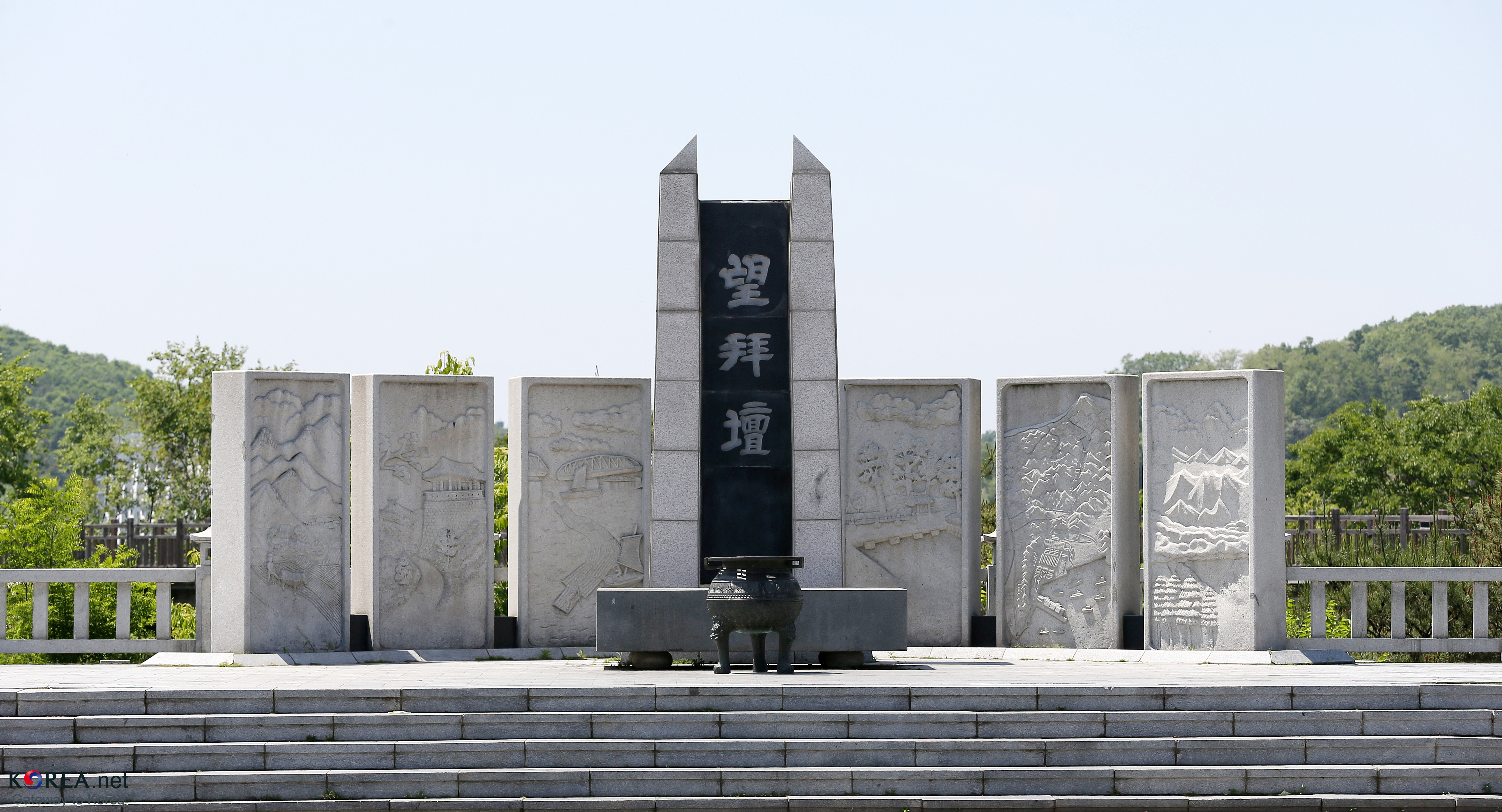 DMZ Train Imjingak May 21, 2014 From Seoul Station to Dorasan Station Ministry of Culture, Sports and Tourism Korean Culture and Information Service ( Official Photographer: Jeon Han This official Republic of Korea photograph is licensed as free content, so while restrictions such as personality or privacy rights may apply, in general, manipulations are allowed. If you want a photograph without a watermark, you may ask via Flickr e-mail. 평화열차 DMZ Train 임진각 2014-05-21 서울역-도라산역 문화체육관광부 해외문화홍보원 코리아넷 전한